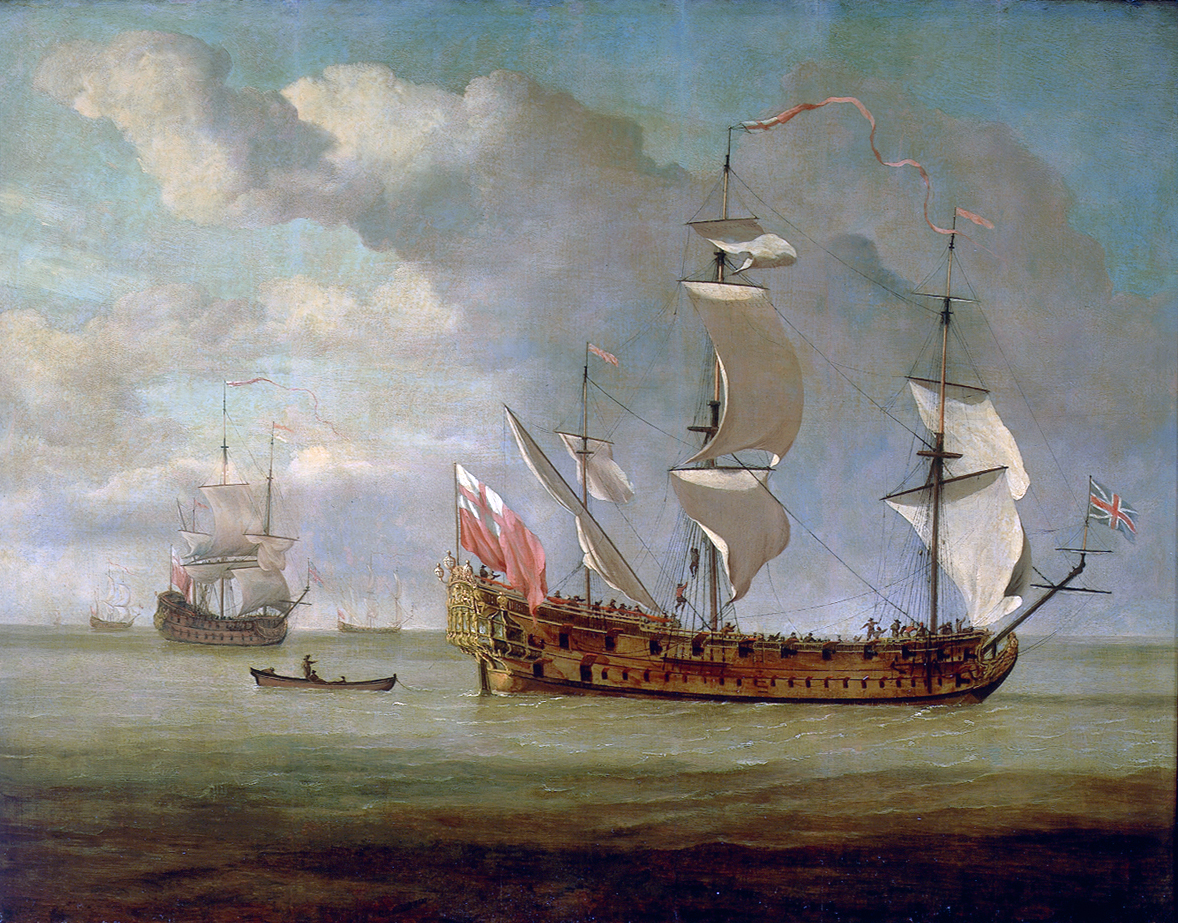 Panel painting of the Charles Galley in a light breeze, towing an admiral's barge with several men in it. The Charles Galley was one of the two so-called galley frigates built in 1676 to serve in the Mediterranean against the Barbary pirates. She was armed with 32 guns and was classed as a fourth-rate ship until 1691. See also info page here.